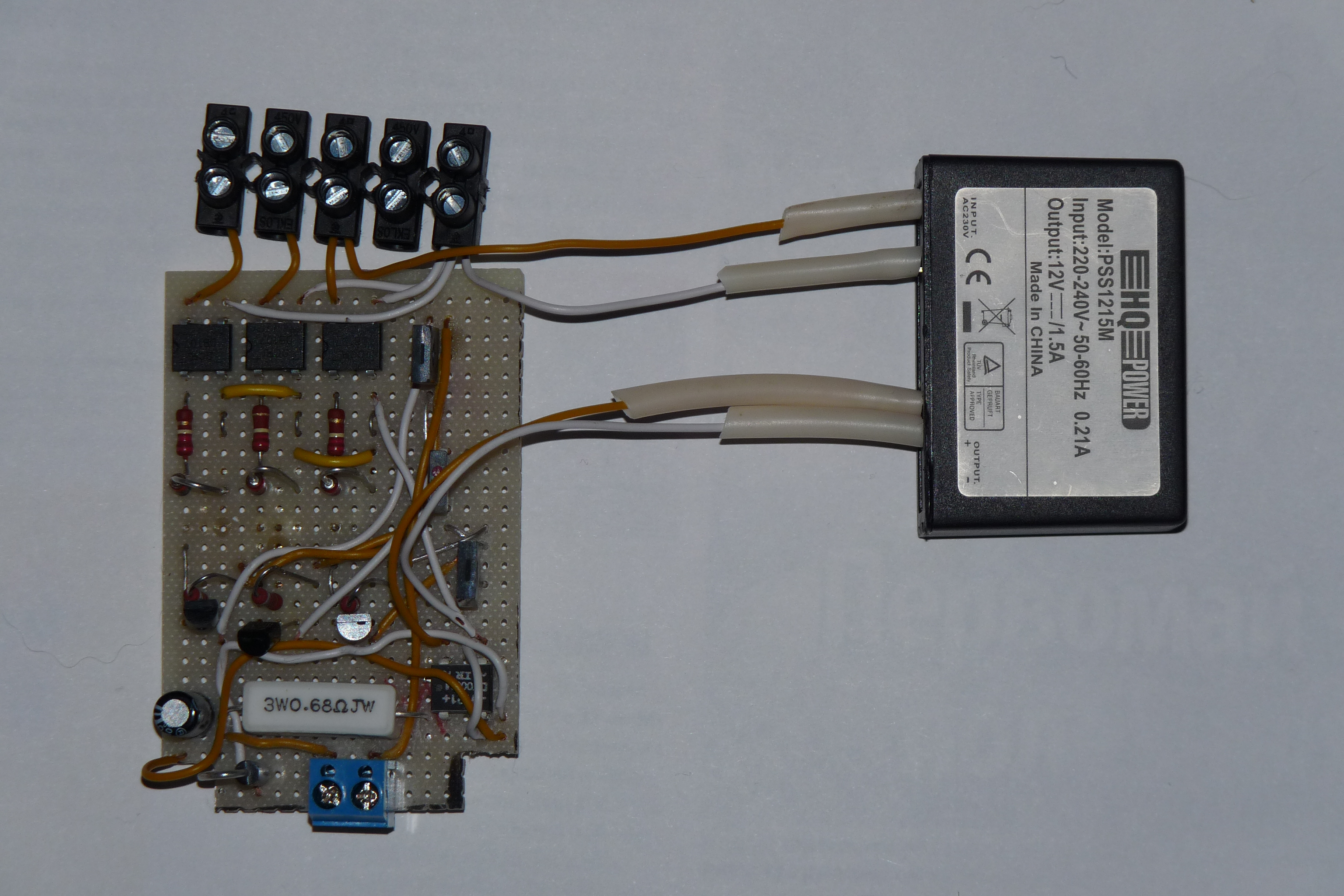 One part of phase control relay - phase control driving unit. Driving current 12V 0,5A. Additionaly you need the 4-pole contactor.